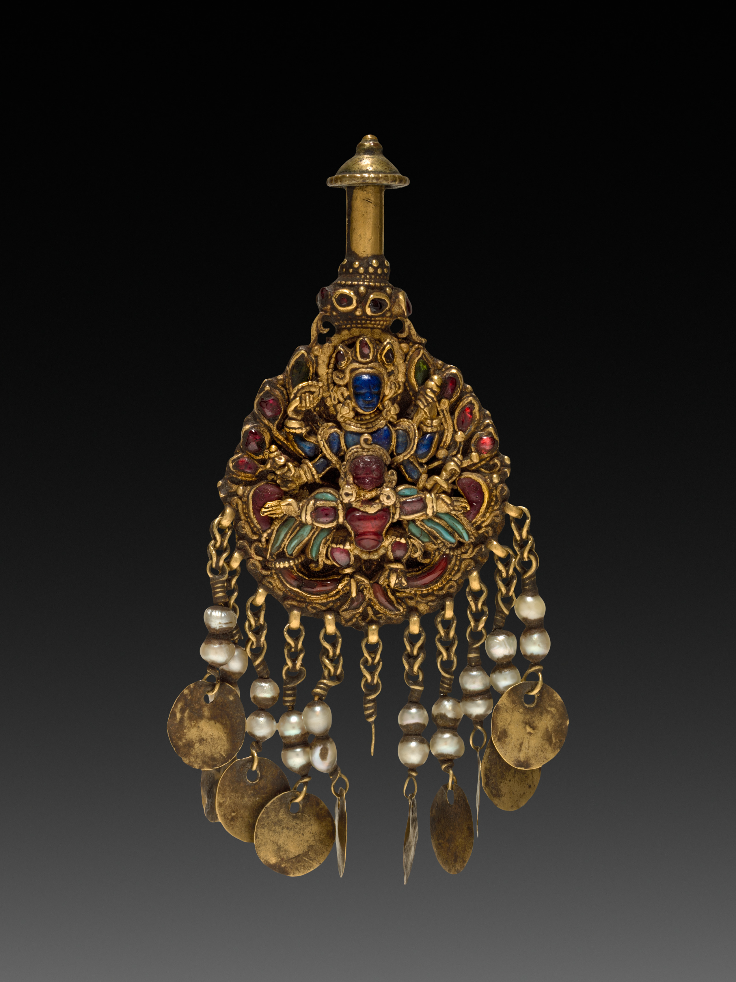 This earring was made to hang on sculptures of deities worshipped in Nepalese temples. Nepalese craftsmen excelled at the detailed encrustation of jewels to depict complex figural imagery. They shaped gold wires into a framework, then inserted polished stones into the spaces, held in place with an adhesive. Four-armed Vishnu is made of sapphires; his mount the man-eagle appears to be made of carnelian and spinel with wings of turquoise.